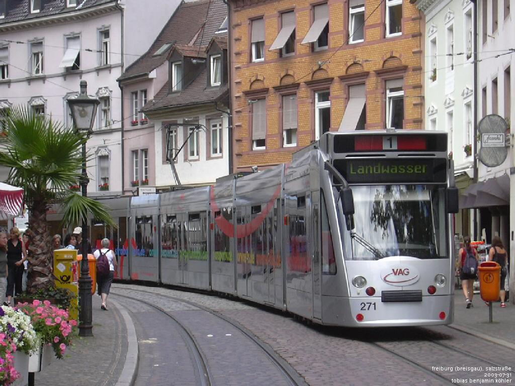 Siemens Combino low floor tram 271 (built 2003) going to Landwasser. Picture taken in the Salzstraße at Oberlinden station in downtown Freiburg im Breisgau, Germany